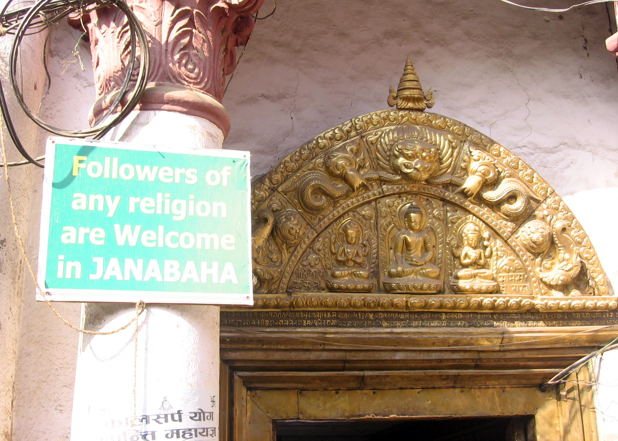 Entrance to the sacred courtyard of Jana Baha, Kathmandu.